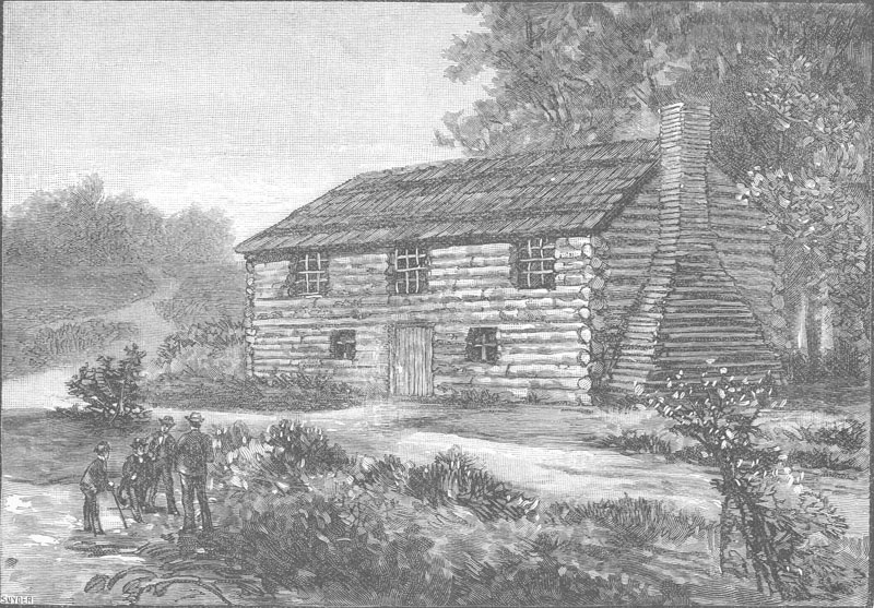 The Original Log College Building (a 19th-century representation)